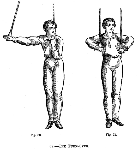 Illustration from book "Athletic Sports For Boys: A Repository Of Graceful Recreations For Youth" (1866), page 47.